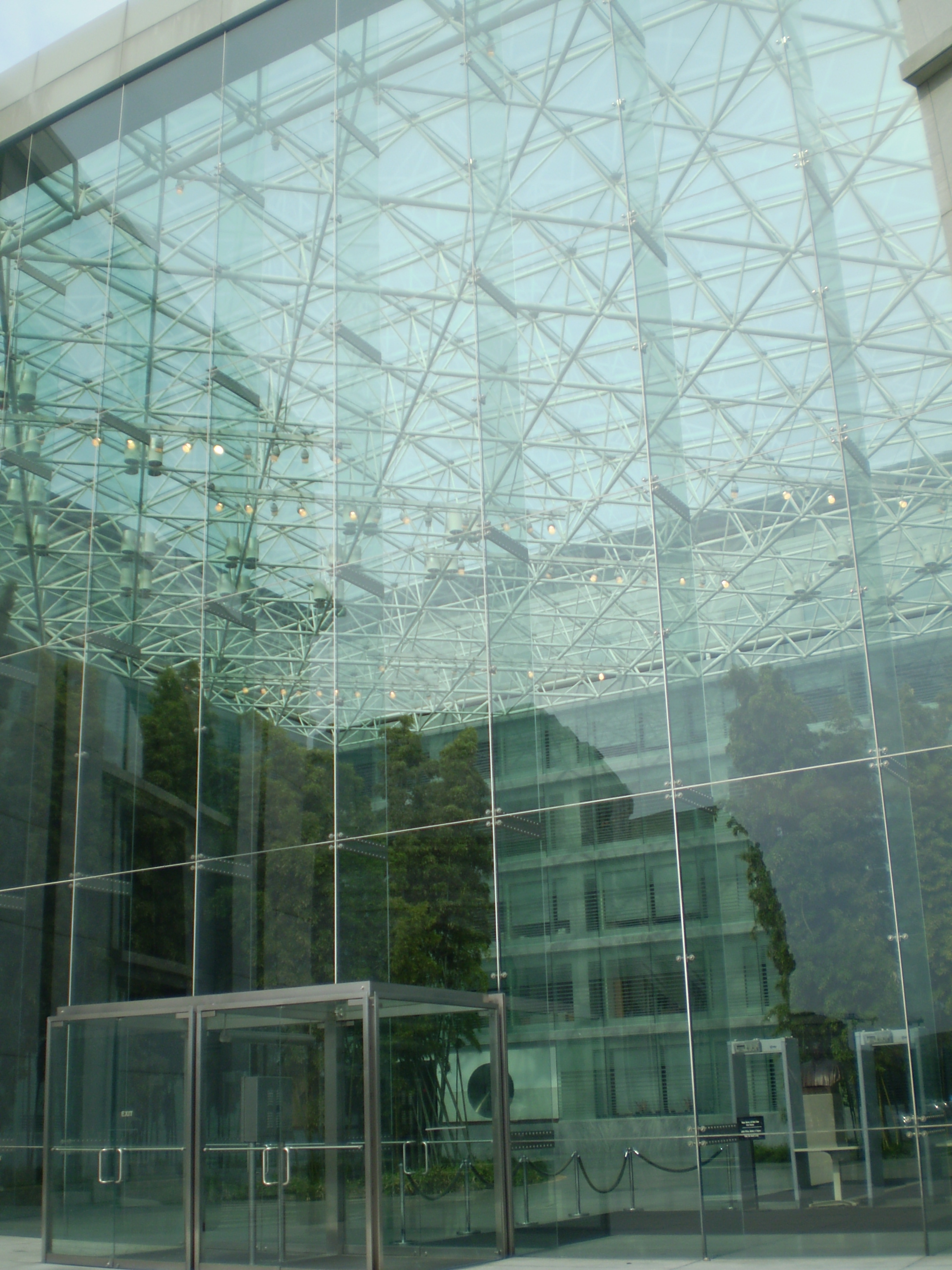 Thurgood Marshall Federal Judiciary Building.